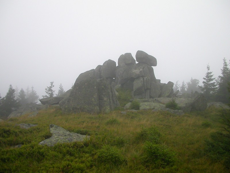 The rock outcrop of the Kahle Klippe in the High Harz mountains of Germany